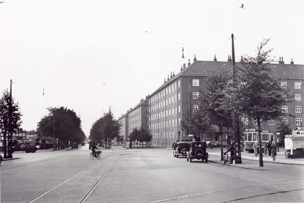 Looking west along Vigerslev Allé at Toftegårds Plads (with roundabout) in Copenhagen, Denmark.